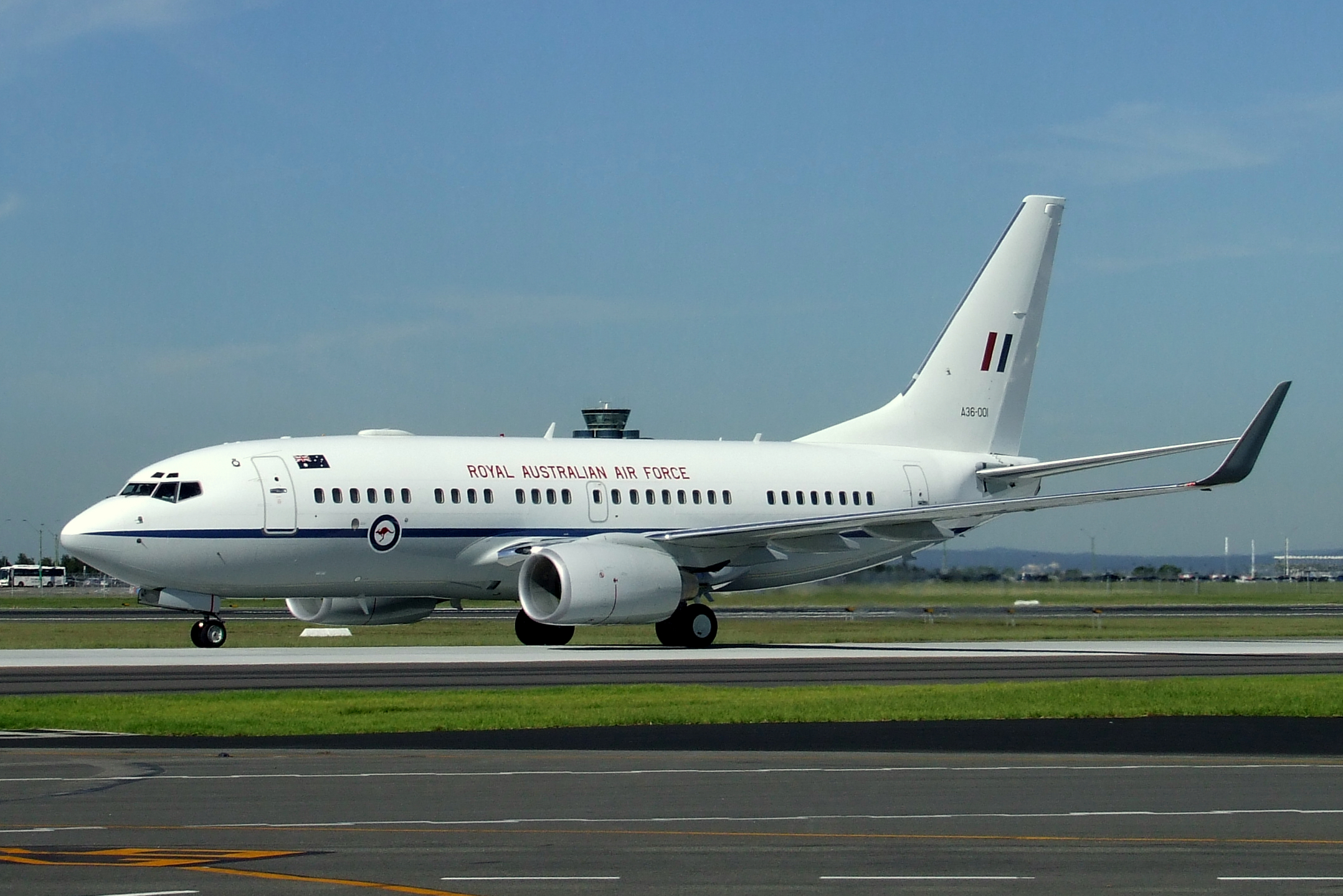 One of two Boeing BBJs in service with the Royal Australian Air Force taxies at Sydney Airport. Digital image of A36-001 taken by YSSYguy on 28 March 2007 and uploaded for use in the article about No. 34 Squadron RAAF.